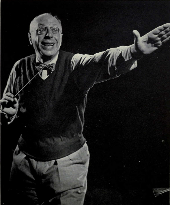 Photograph of conductor George Szell during visit to Hill Auditorium at University of Michigan This work is in the public domain because it was published in the United States between 1923 and 1963 and although there may or may not have been a copyright notice, the copyright was not renewed. Unless its author has been dead for the required period, it is copyrighted in the countries or areas that do not apply the rule of the shorter term for US works, such as Canada (50 pma), Mainland China (50 pma, not Hong Kong or Macao), Germany (70 pma), Mexico (100 pma), Switzerland (70 pma), and other countries with individual treaties. See Commons:Hirtle chart for further explanation. This work is in the public domain in the United States because it was published in the United States between 1923 and 1977 without a copyright notice. See this page for further explanation. Note that it may still be copyrighted in jurisdictions that do not apply the rule of the shorter term for US works (depending on the date of the author's death), such as Canada (50 p.m.a.), Mainland China (50 p.m.a., not Hong Kong or Macao), Germany (70 p.m.a.), Mexico (100 p.m.a.), Switzerland (70 p.m.a.), and other countries with individual treaties.